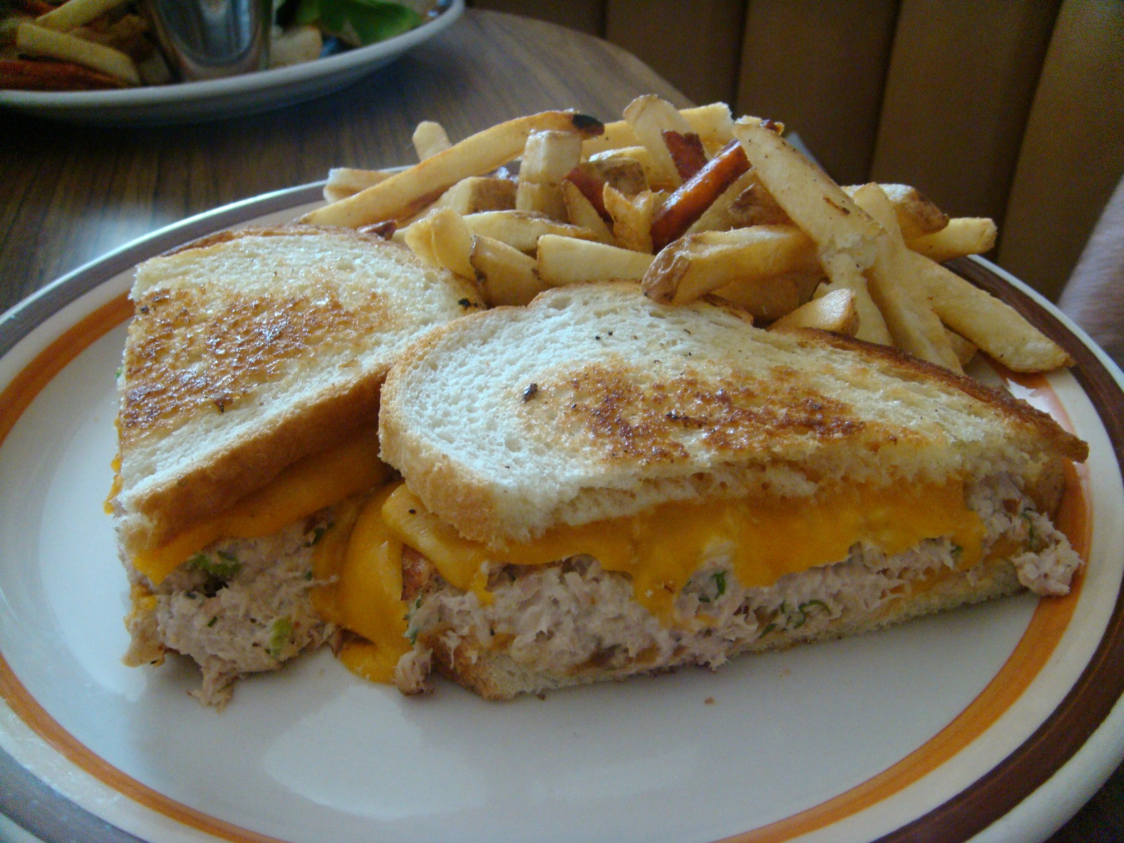 A tuna melt sandwich on a plate with French fries as served by the 101 Coffee Shop at 6145 Franklin Ave in Hollywood, California, USA. According to their online menu as viewed on 2009-07-17, they serve tuna melts with "fresh dill, celery, and a touch of lemon" with a "choice of French fries, salad, potato salad or mashed potatoes" included in the purchase price.tuna melt